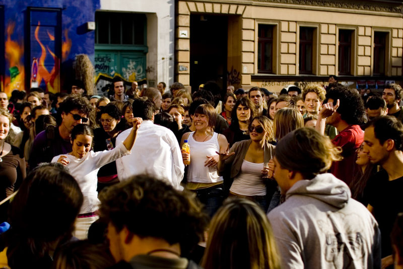 People at the MyFest in Berlin, Kreuzberg